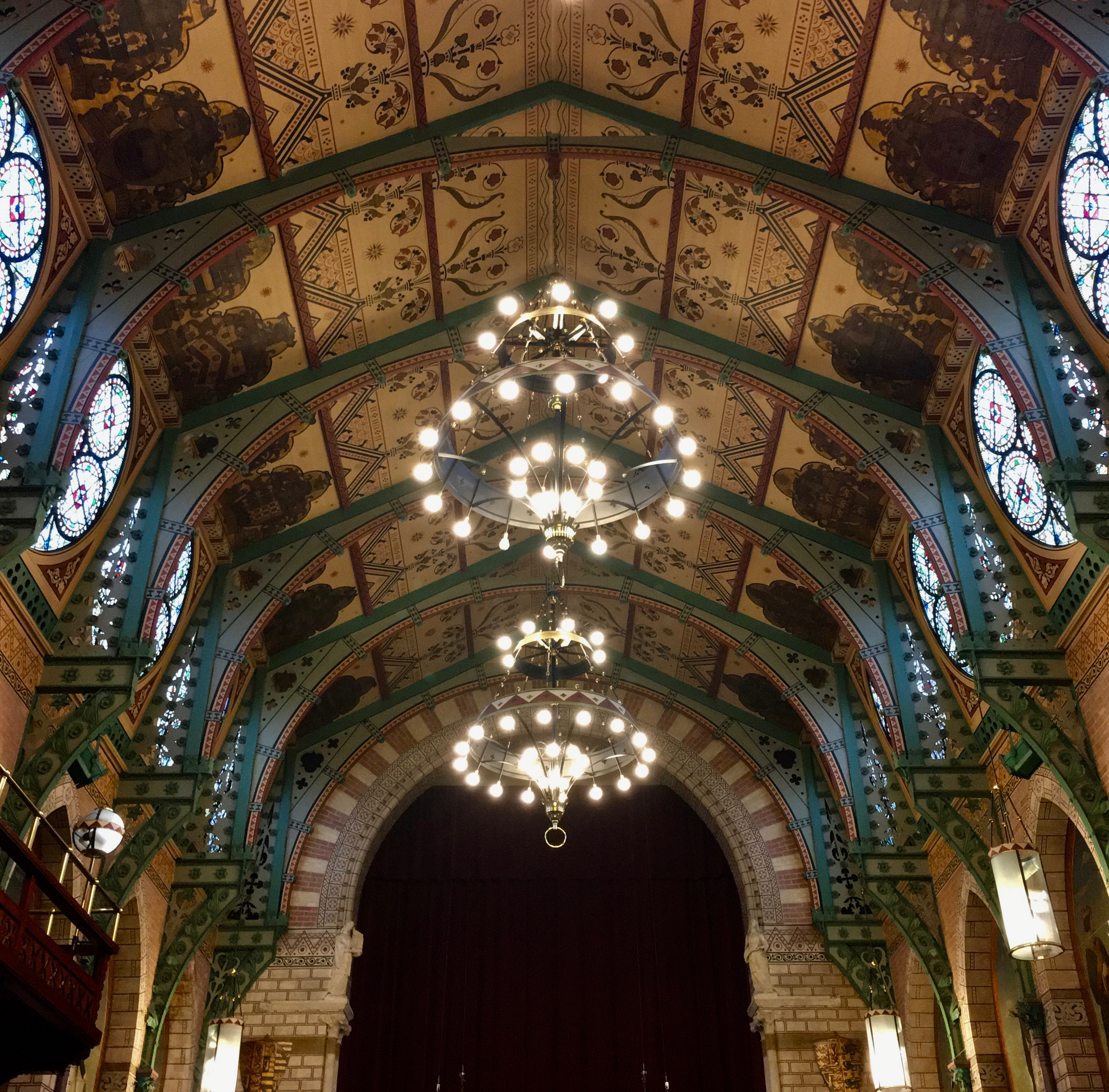 Northampton Guildhall interior